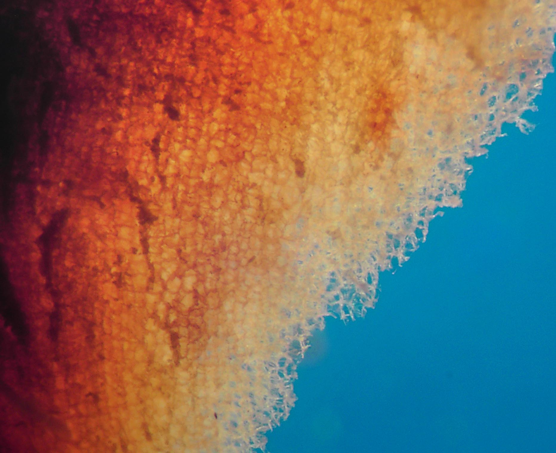 200 times magnified image of a section of cork material from a cork. Image represents approximately 800µm X 600µm